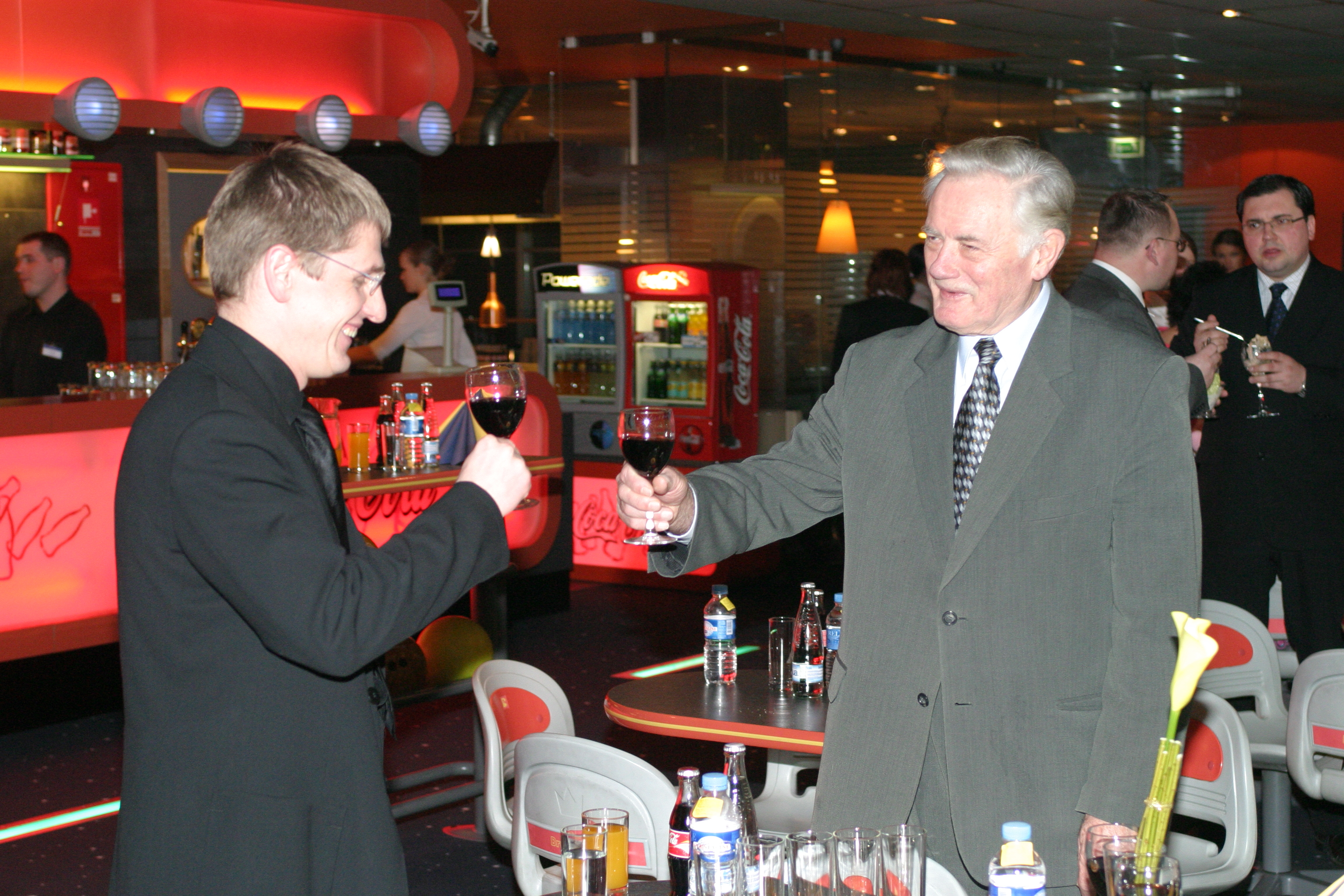 Julius Numavicius (businessman) with former Lithuanian President Valdas Adamkus.